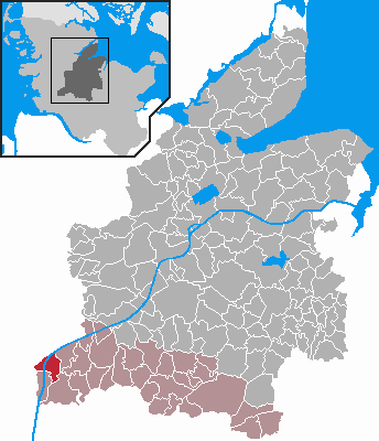 Locator maps of municipalities in Schleswig-Holstein - District Rendsburg-Eckernförde